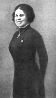 Plevitskaja (1886-1940), Russian spy